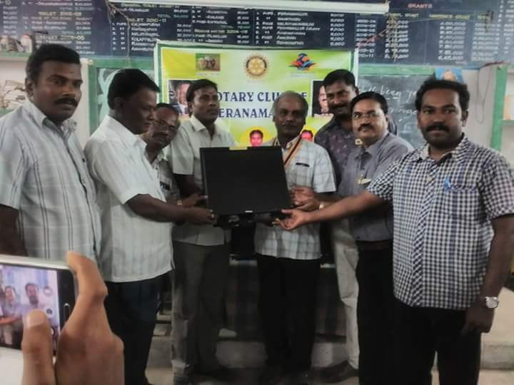 RC PMR